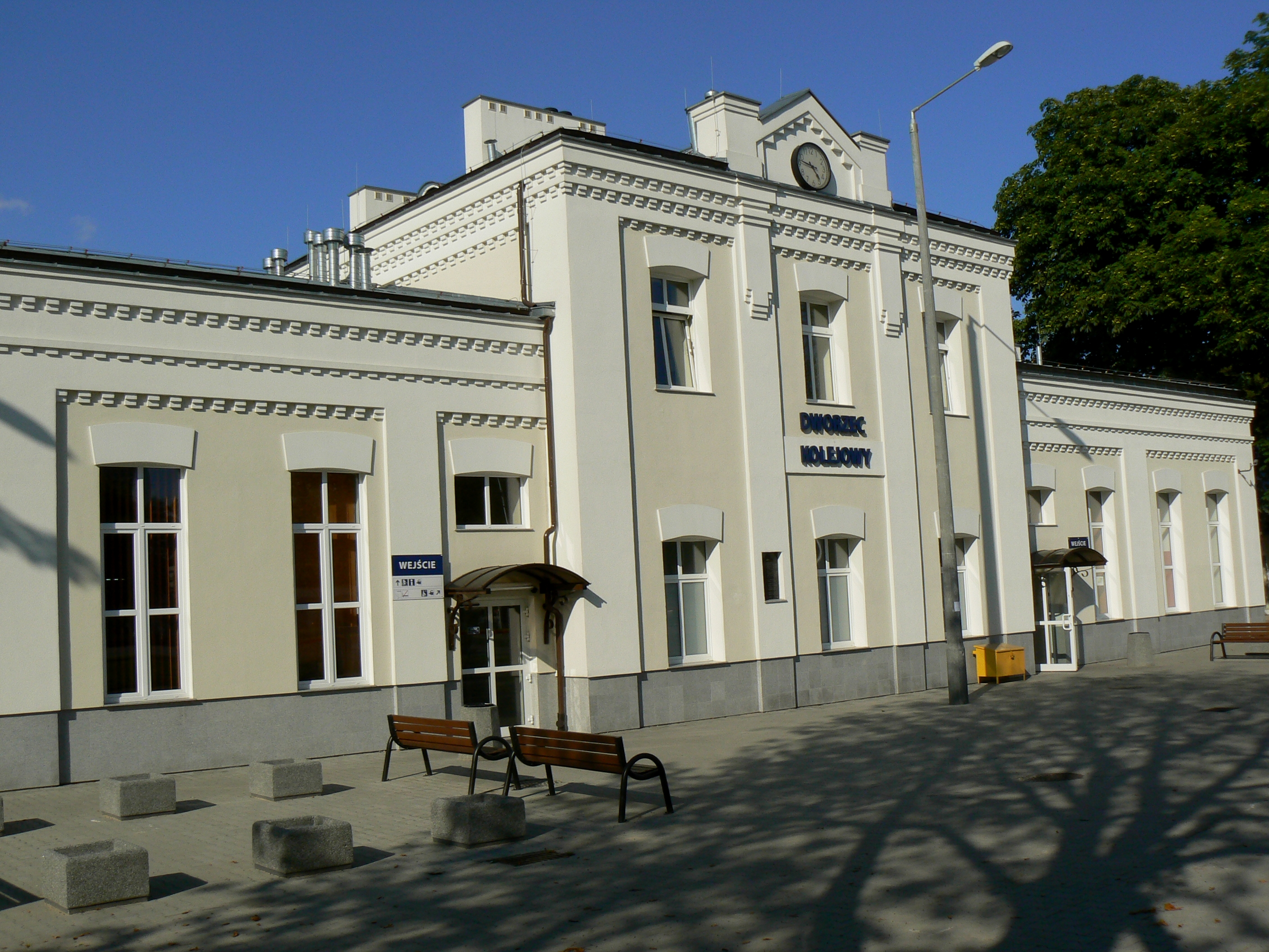 Building of Łódź-Widzew train station - front view, Łódź, Poland.